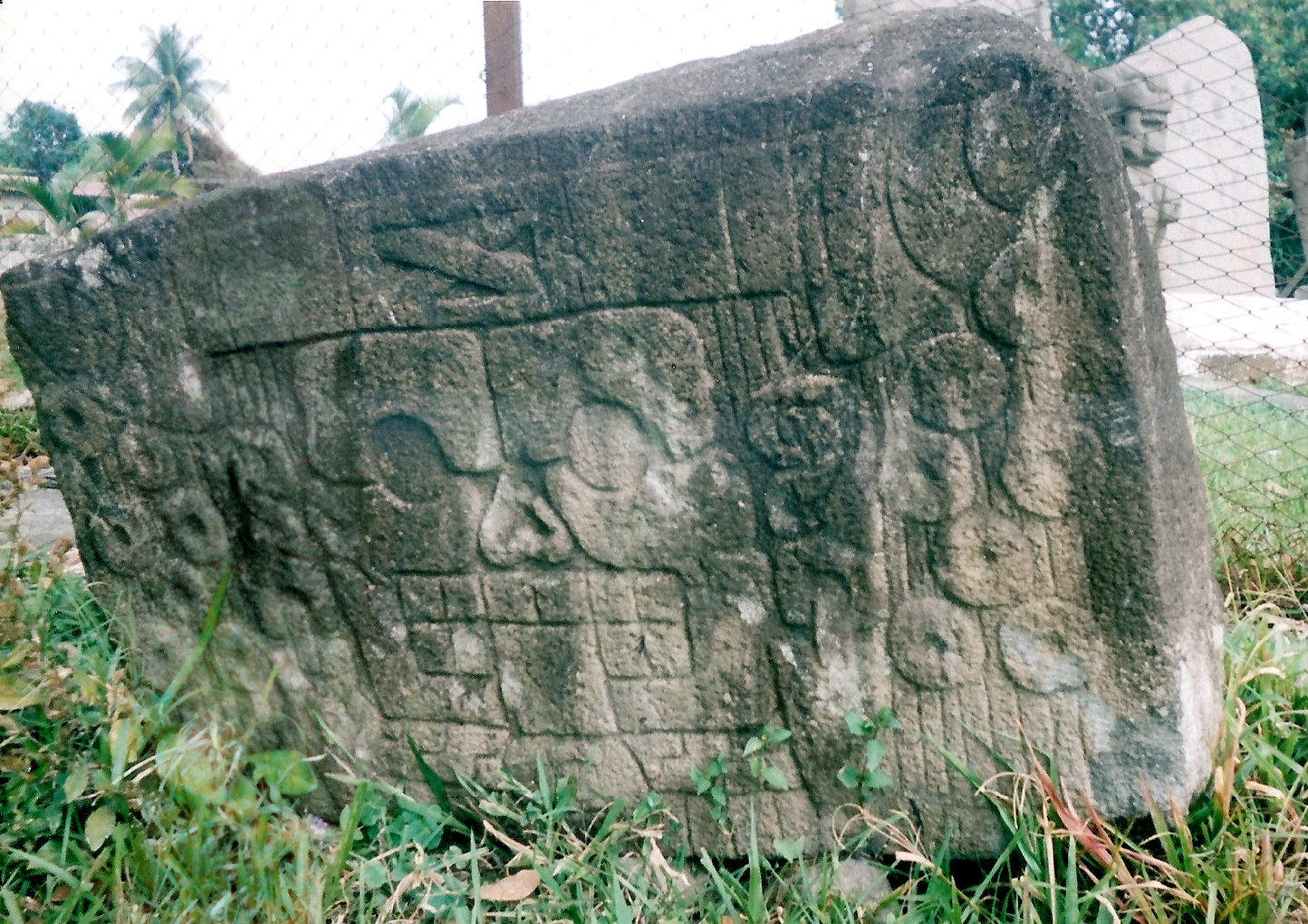 Prehispanic sculpture at the Finca El Baúl sugar plantation near Santa Lucia Cotzumalguapa, Escuintla, Guatemala. Photo taken in 2000.